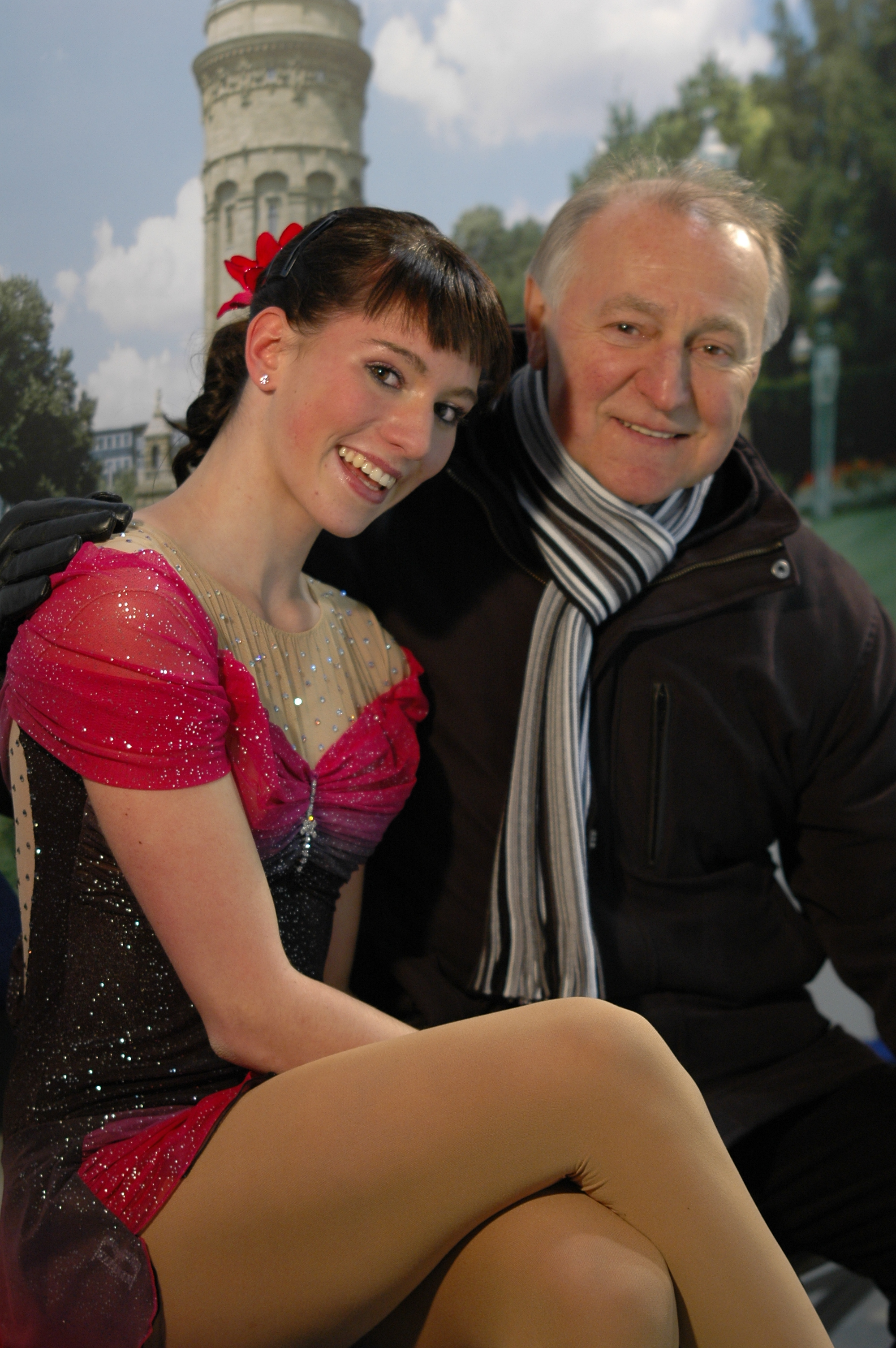 Competition senior ladies at the German Championships in Figure Skating 2010 at the SAP Arena in Mannheim. Organized by the DEU (German Figure Skating Union). German Champion is Sarah Hecken with 157,46 point in total. Picture is showing Sarah Hecken after her short program with Germanys ladies national coach Peter Sczypa sitting in the kiss and cry corner.